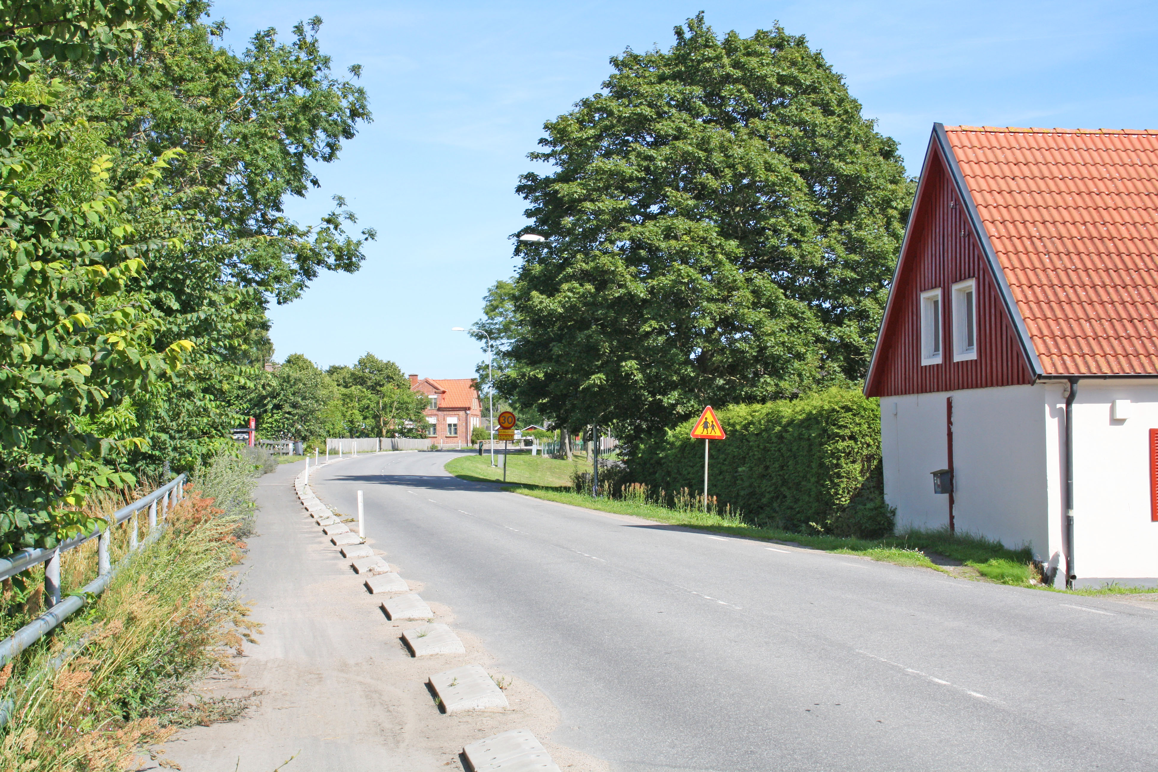 The old main road between Blekinge and Scania, in Edenryd.